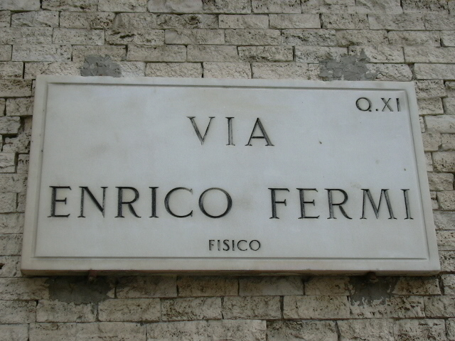 A street sign in Rome in honour of the Italian physicist Enrico Fermi.